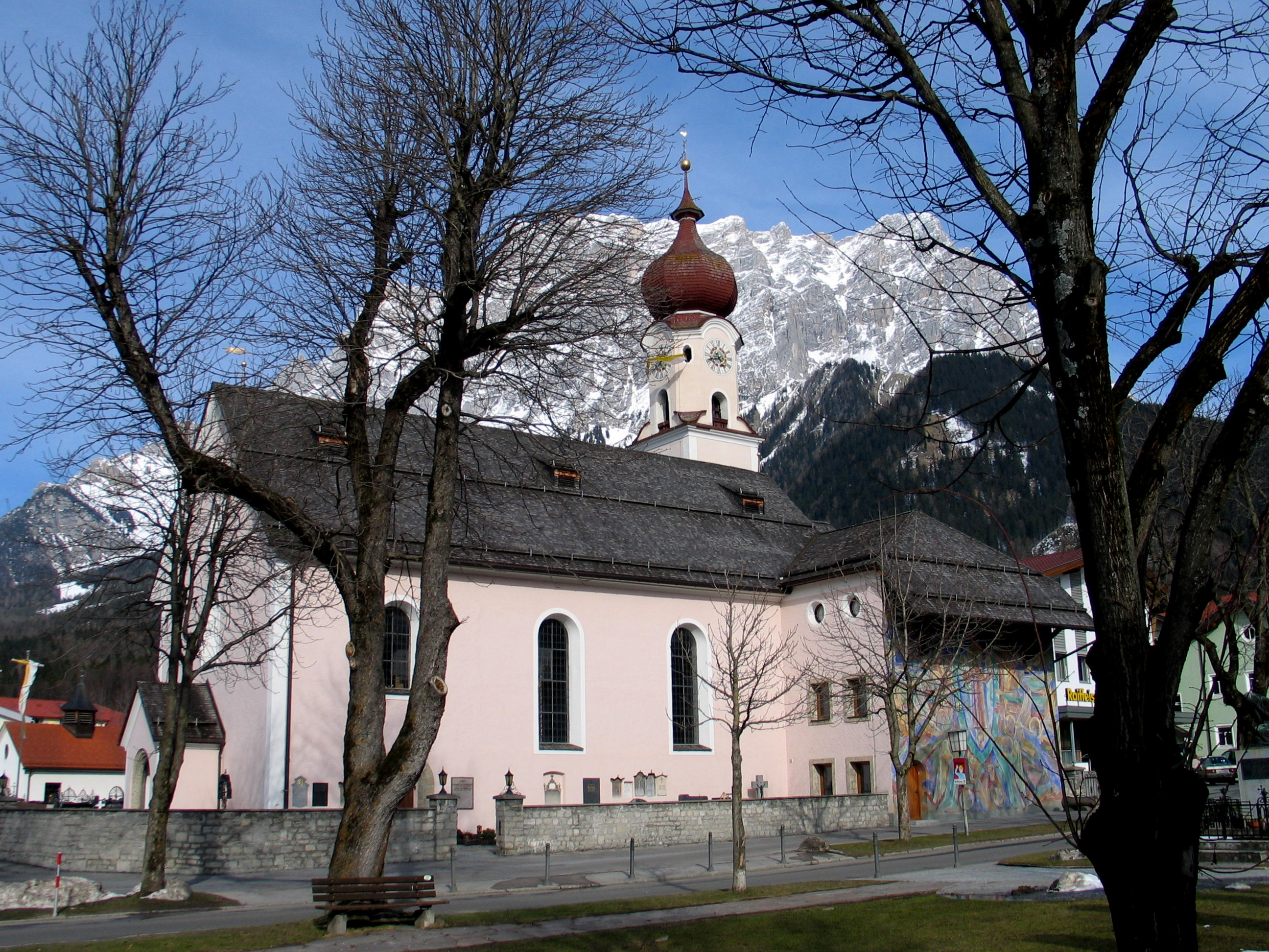 Ehrwald, Parish Church of the Visitation from south west (Kirchplatz).